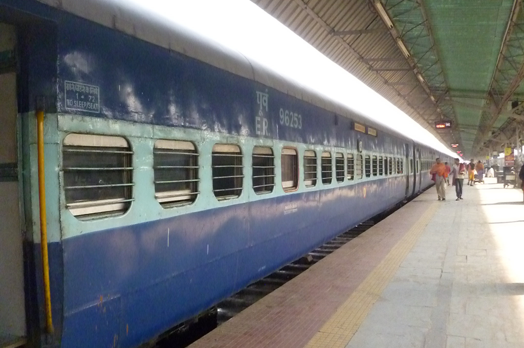 Kanchan Kanya Express Sleeper Class Coach at Sealdah Junction